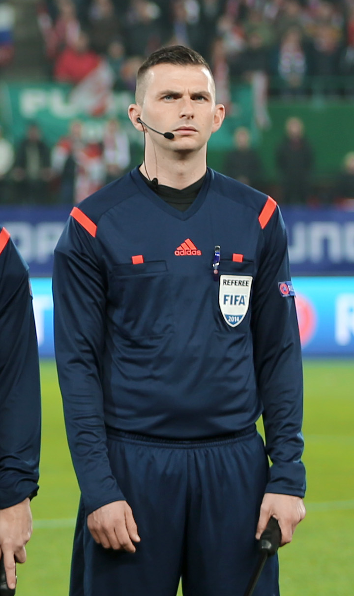 Referees for the qualification match for UEFA Euro 2016: Austrian national football team vs. Russian national football team; Ernst-Happel-Stadion in Vienna, Austria.